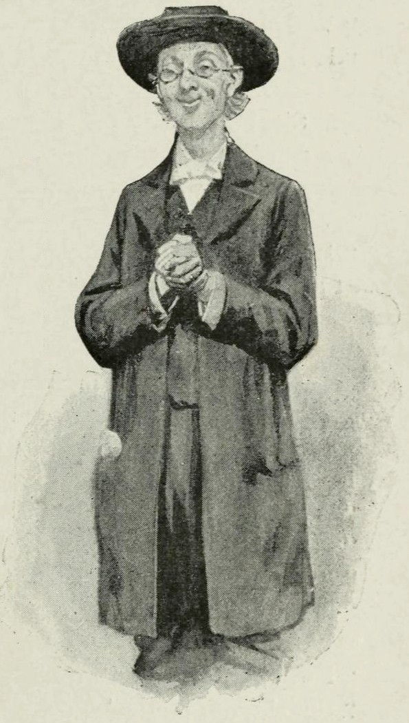 Illustration of the short story A Scandal in Bohemia, which appeared in The Strand Magazine in July, 1891. This illustration appeared on page 70, and is captioned, "A SIMPLE MINDED CLERGYMAN."